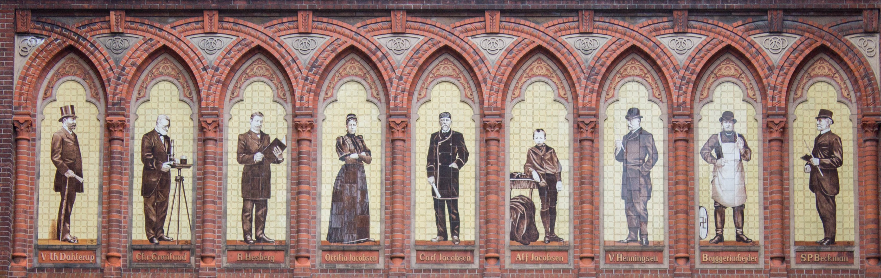 Frieze with key people associated with the construction and operation of Ny Carlsberg seen on the Dipylon Building in Copenhagen, Denmark